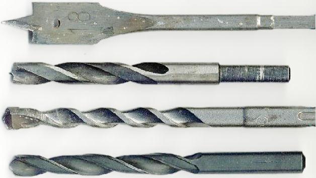 Some drill bits